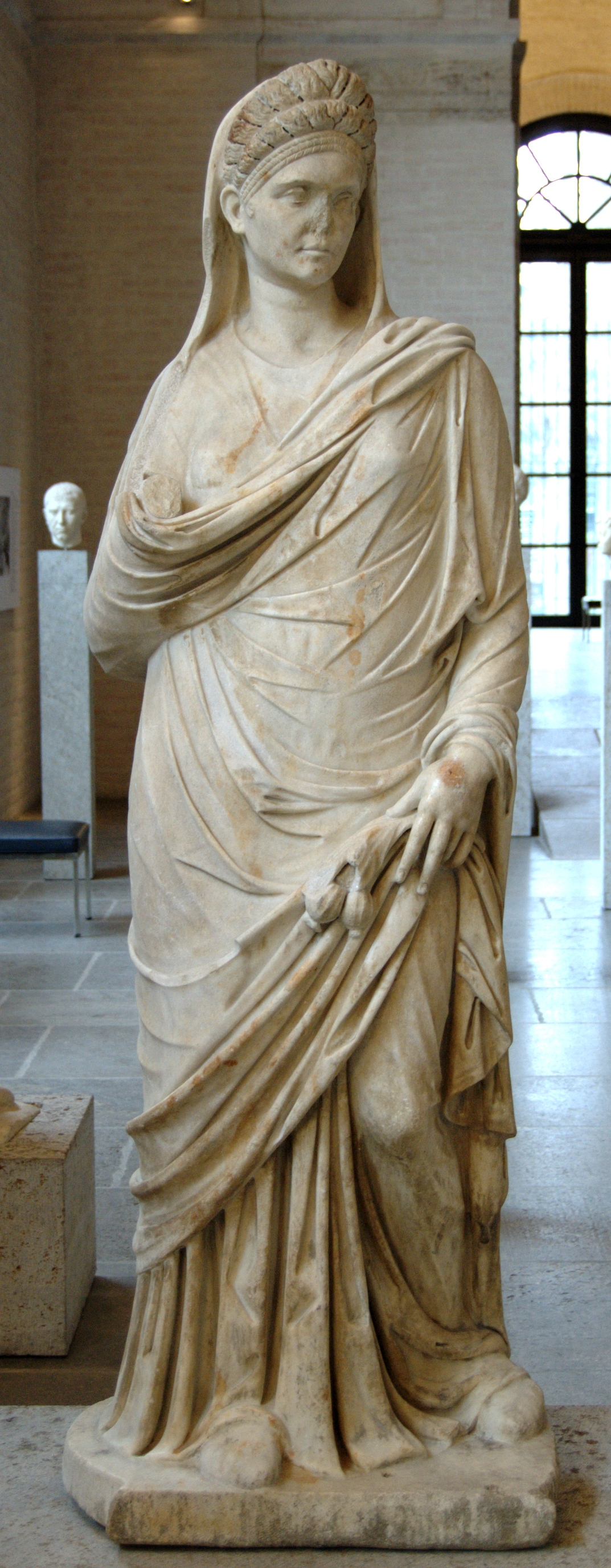 Statue of a Roman woman, ca. 100–110 CE.